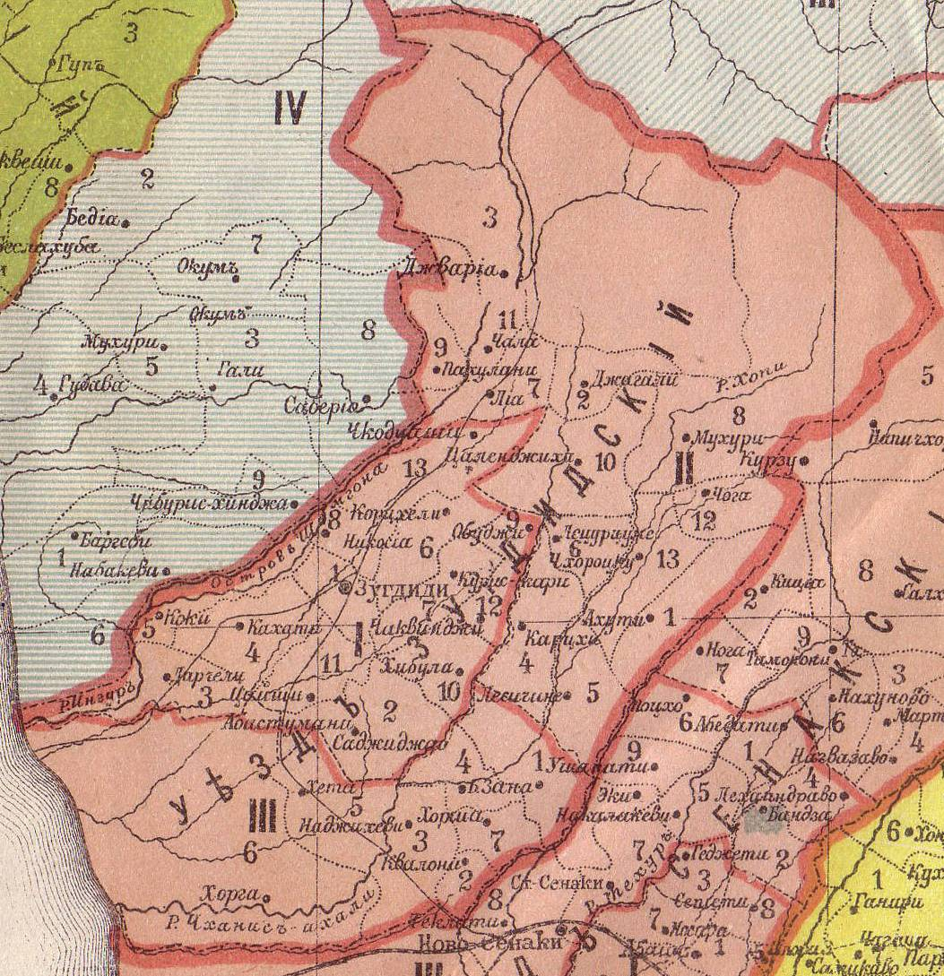 Ethnographic map of the Kutais Governorate